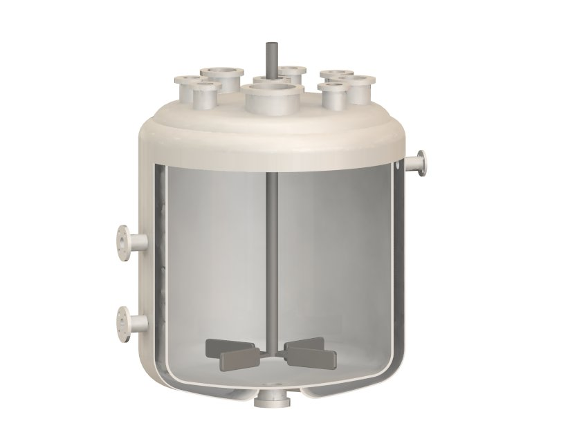 Robert Ashe